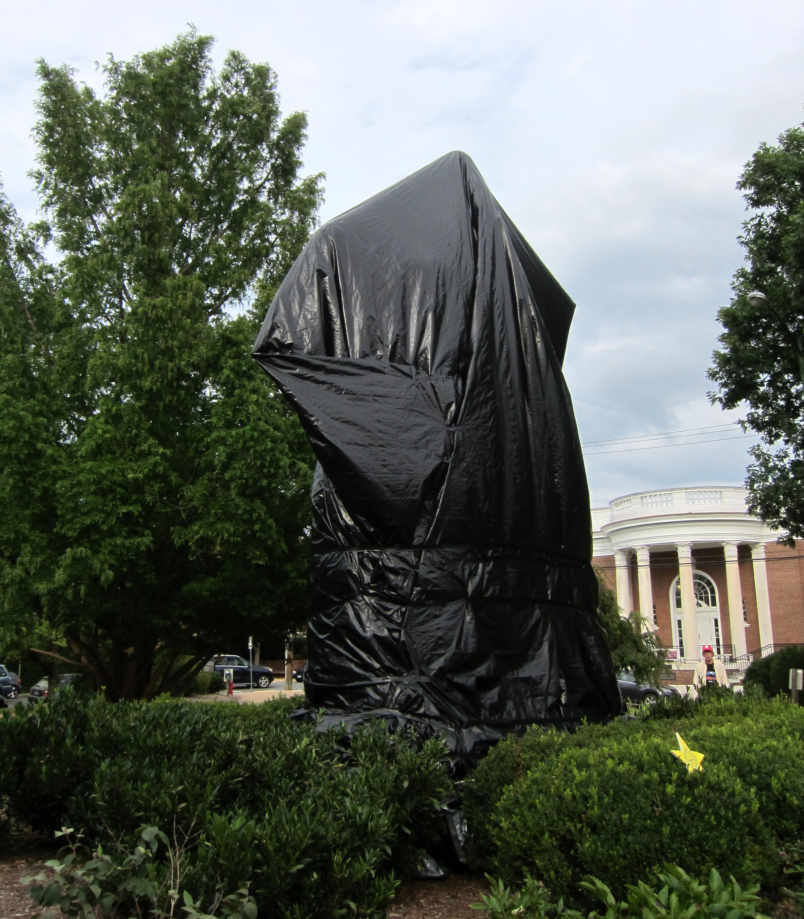 The Robert Edward Lee sculpture in Charlottesville, Virginia, covered in tarp.